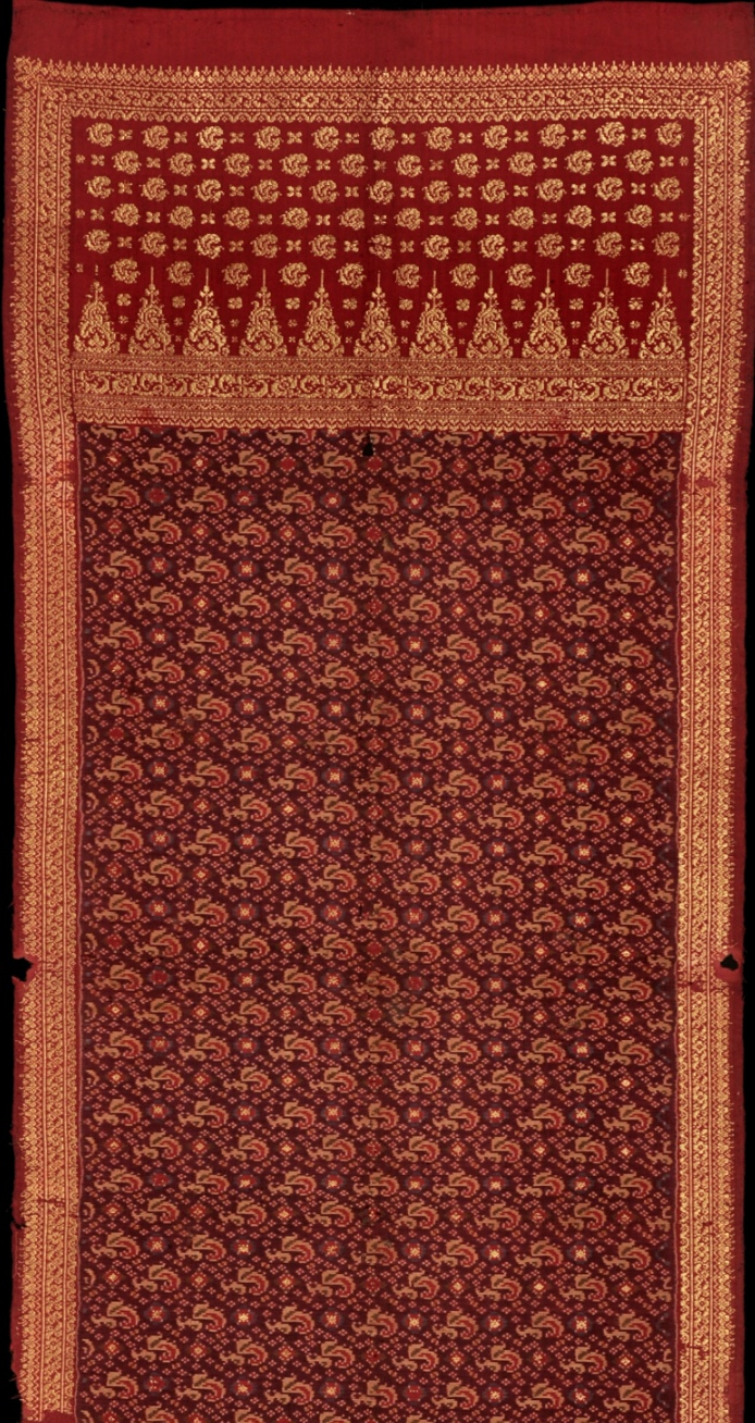 Kain limar (shoulder cloth) from Bangka, probably Muntok, or from Palembang on Sumatra, executed in fine silk with gold songket (brocade). Ikated central field, badan, with floral motifs elaborately framed in supplementary weft with gold thread. Tumpal style kepala (end borders). Size: 56.5 x 146.5 cm (22.2 x 57.6 in) Yarn: Silk, hand-spun Comment: Ancient and extremely fine example of the traditional high status shoulder cloth of this region. A true pusaka (heirloom). Gold songket border slightly frayed on six spots due to unfolding and refolding over some two centuries. Natural dyes.